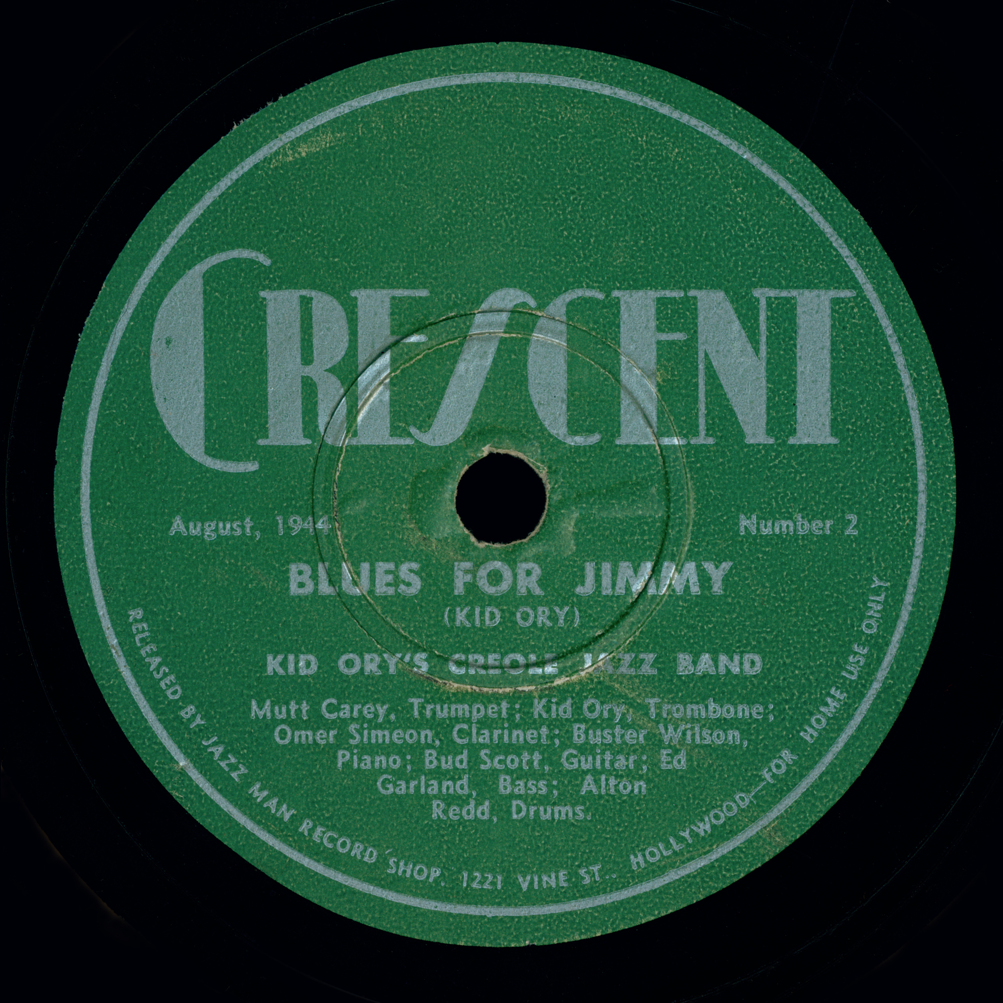 Crescent Records 78 label by Kid Ory's Creole Jazz Band, for Kid Ory's song, "Blues for Jimmy".